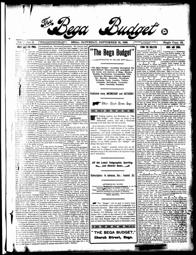 The front page of the Bega Budget on 30 September 1905.